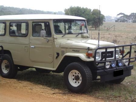 I took the photo, one of the 40 series varieties.